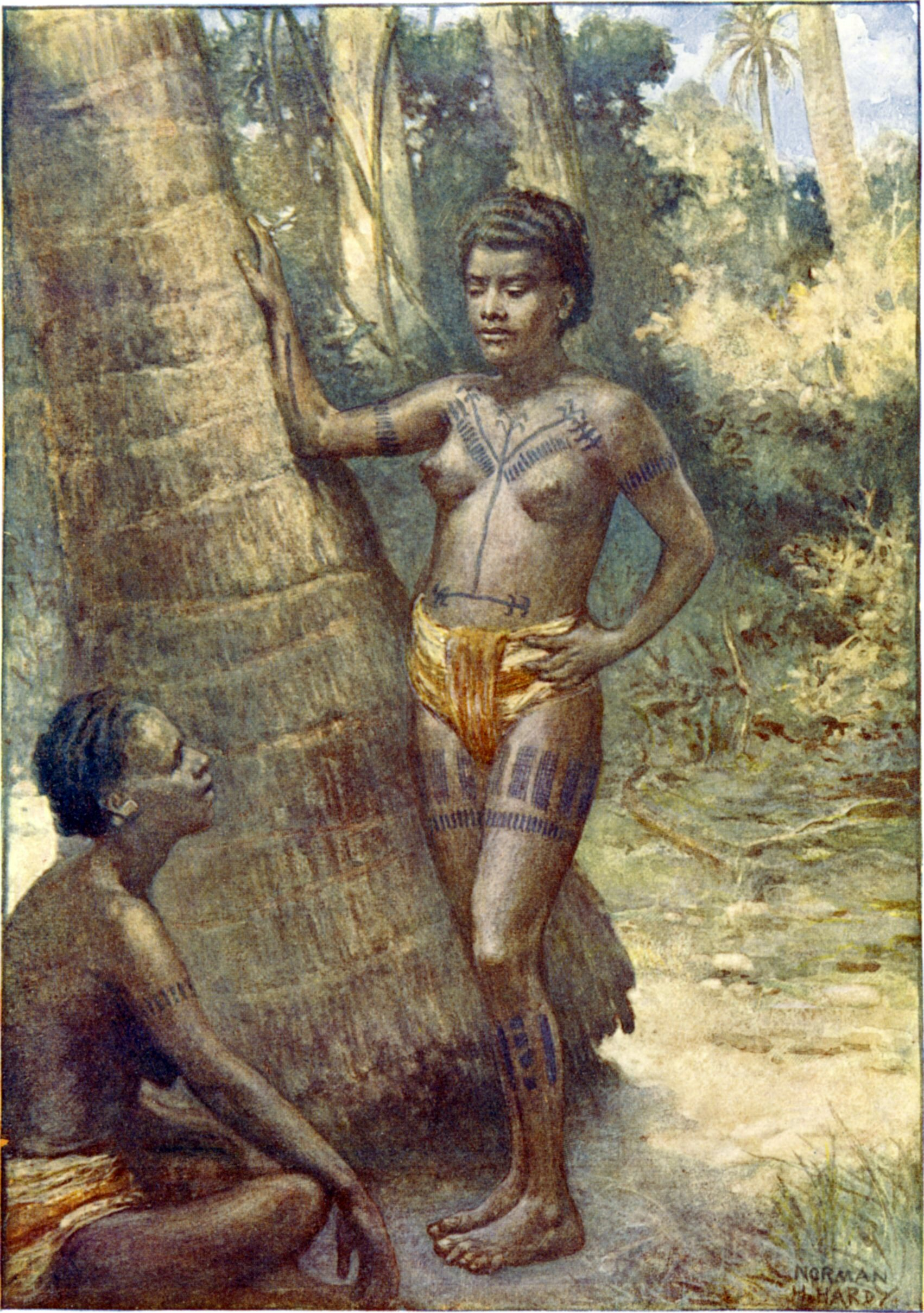 Women of Rennell Island (Polynesia)